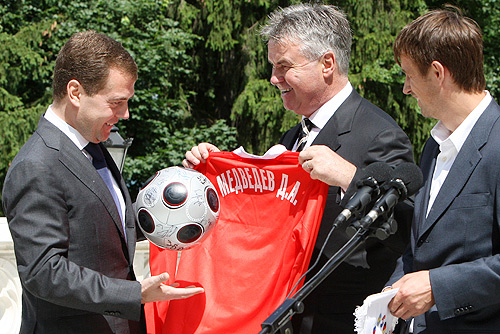 MAIENDORF CASTLE, MOSCOW REGION. At a meeting with the Russian national football team.